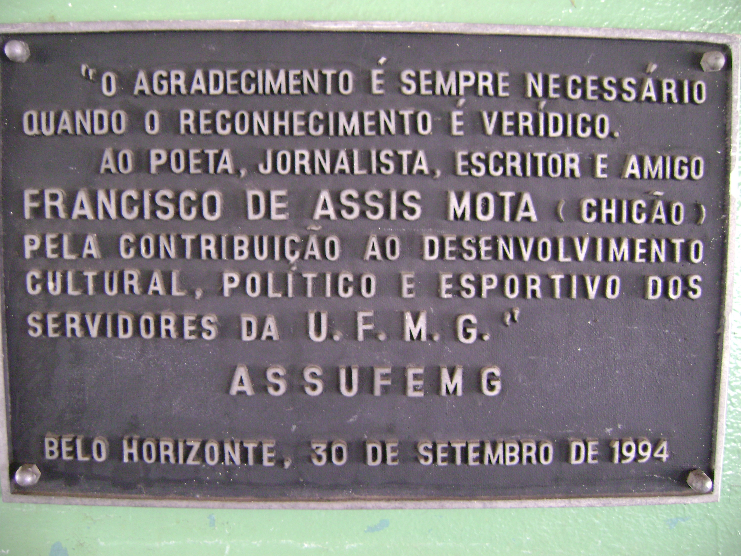 Inscrição relatando homenagem da ASSUFEMG (Associação dos Servidores da Universidade Federal de Minas Gerais).